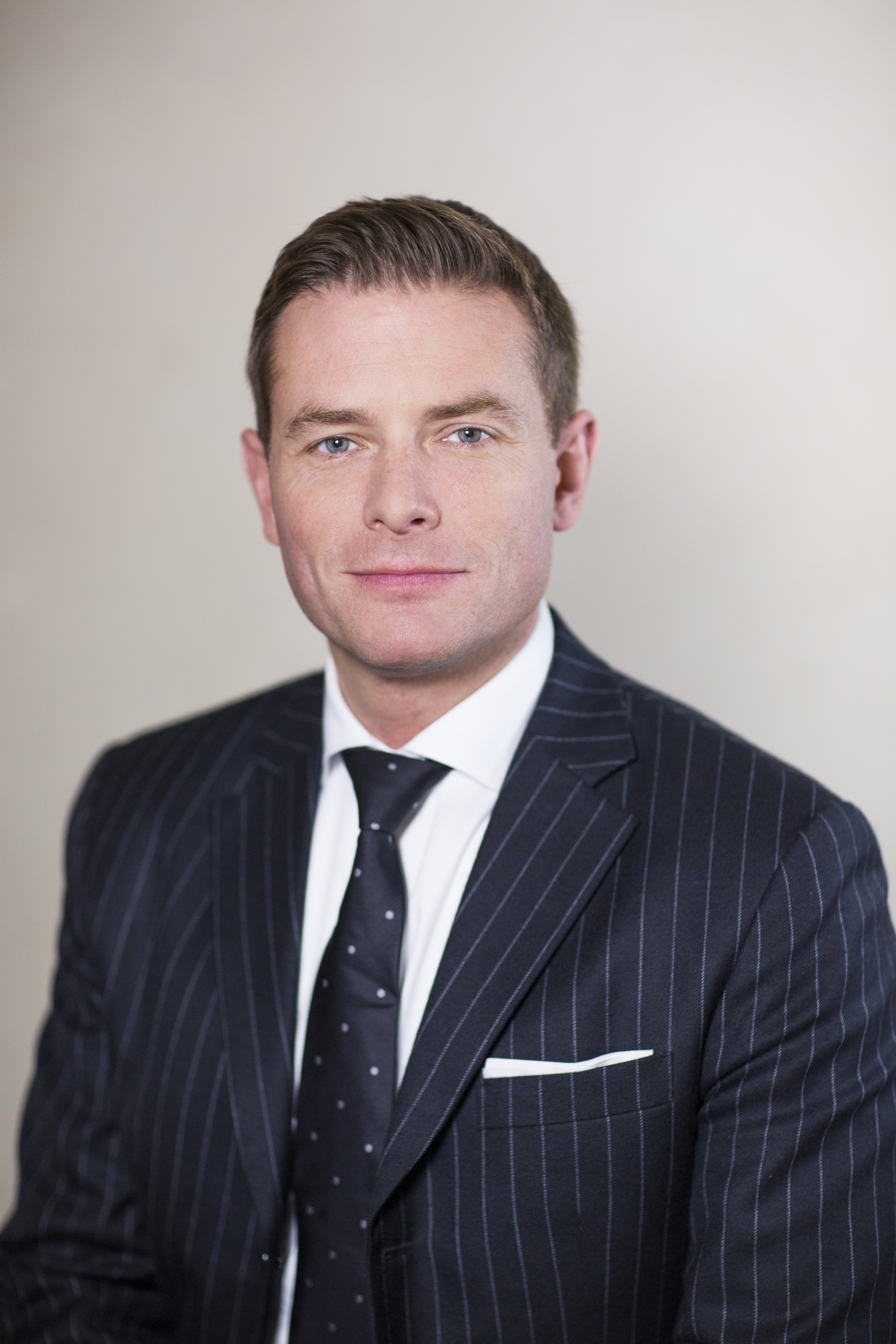 Joakim Larsson 2014.